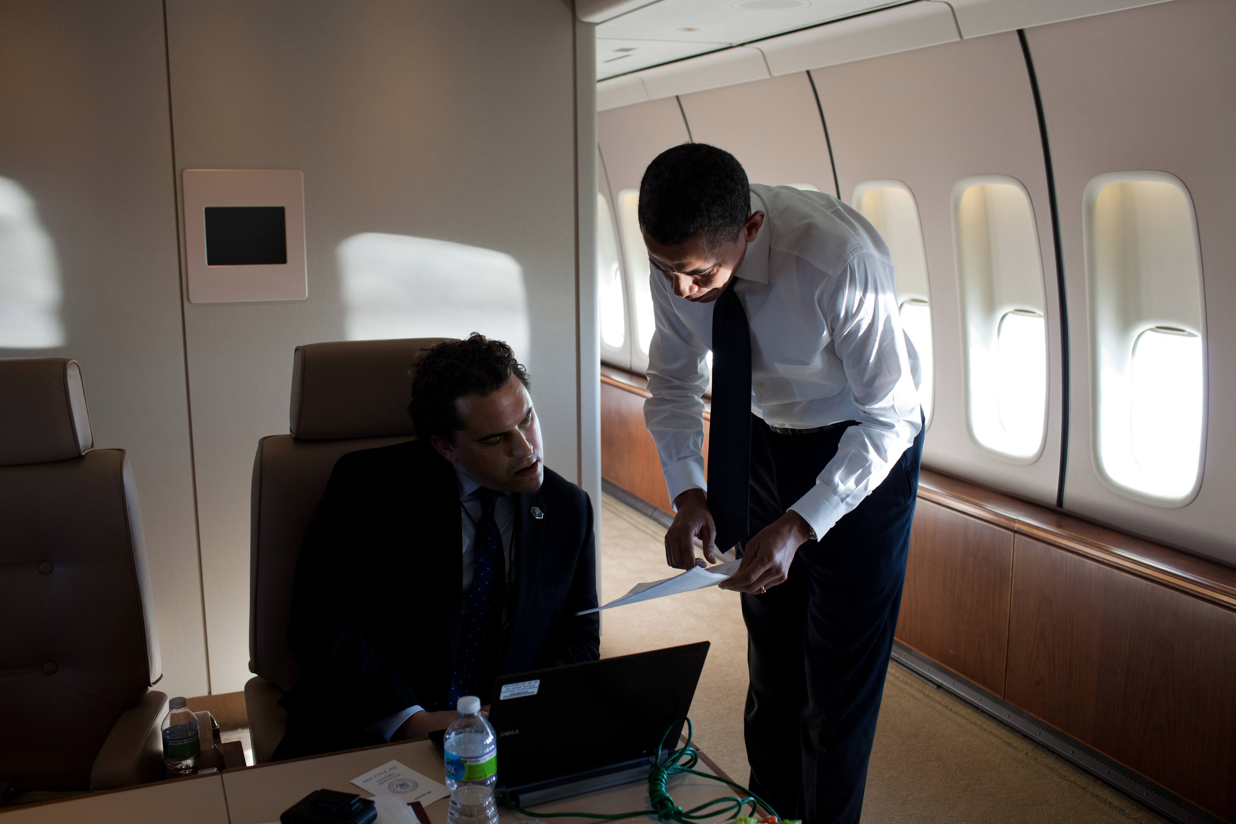 U.S. President Barack Obama with speechwriter Cody Keenan aboard Air Force One en route to Tucson, Arizona for a memorial event dedicated to the victims of the 2011 Tucson shooting.